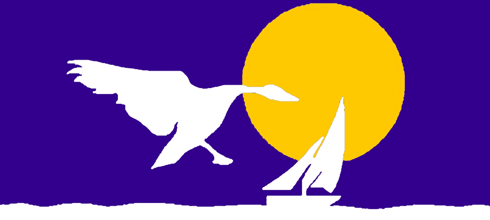 hville flag